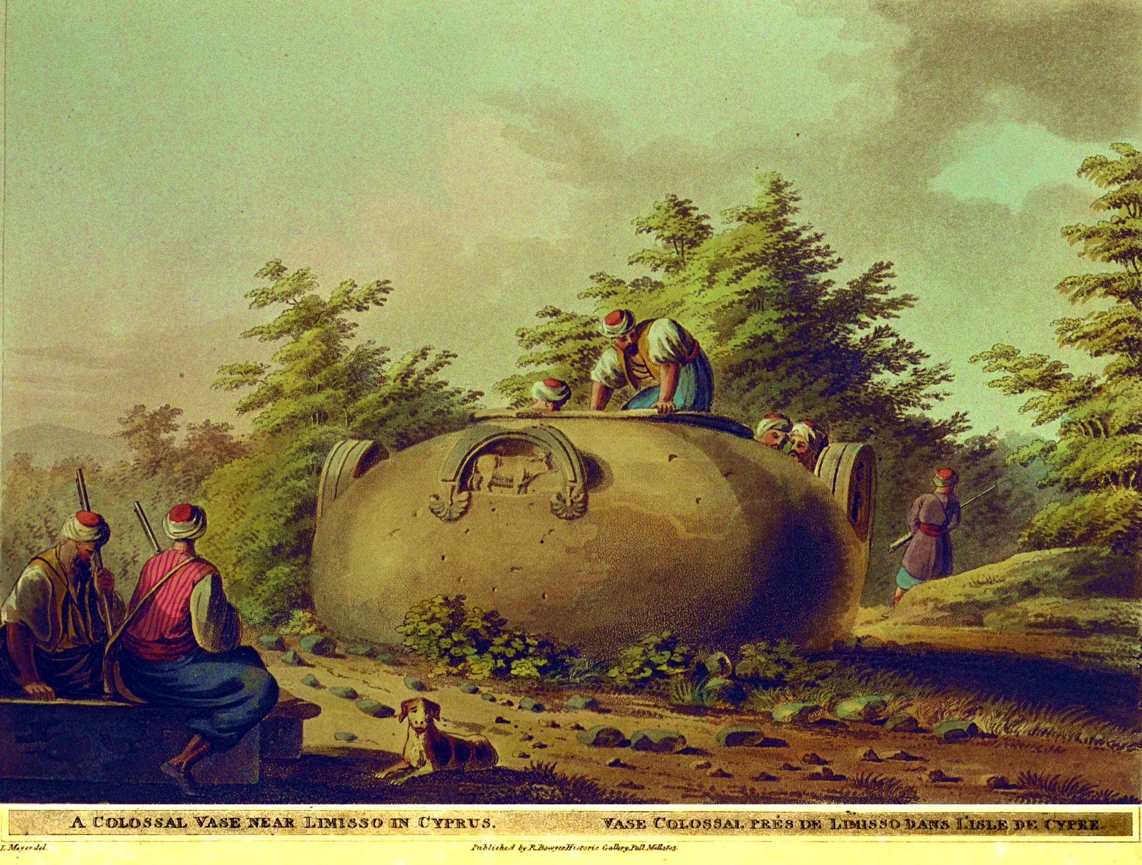 Views in the Ottoman Empire